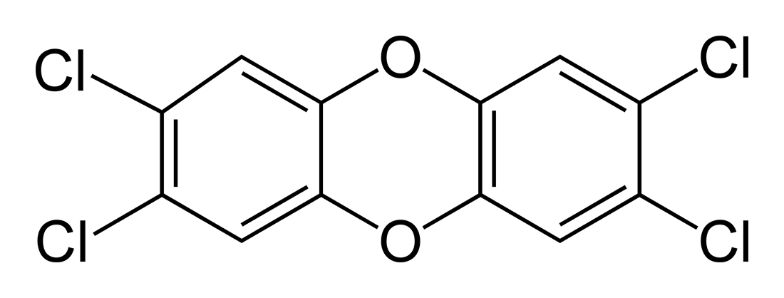 Structural formula (skeletal) of the chemical compound 2,3,7,8-tetrachlorodibenzo-p-dioxin (2,3,7,8-TCDD)